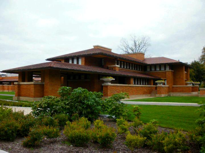 Designed and built in 1905 for the president of the Larkin Soap Company, a prominent mail-order sales firm and one of the largest retail companies in the country at the time, the Darwin D. Martin House is one of the most important works of Frank Lloyd Wright's early career, and marks a turning point at which the eminent architect began to develop his signature style into a more dramatic and confident aesthetic. The abandoned and decaying house was bought by the Martin House Restoration Corporation in 1994 with restoration work beginning three years later; the Darwin D. Martin House has been listed on the National Register of Historic Places and designated a National Historic Landmark and is now open for public tours.